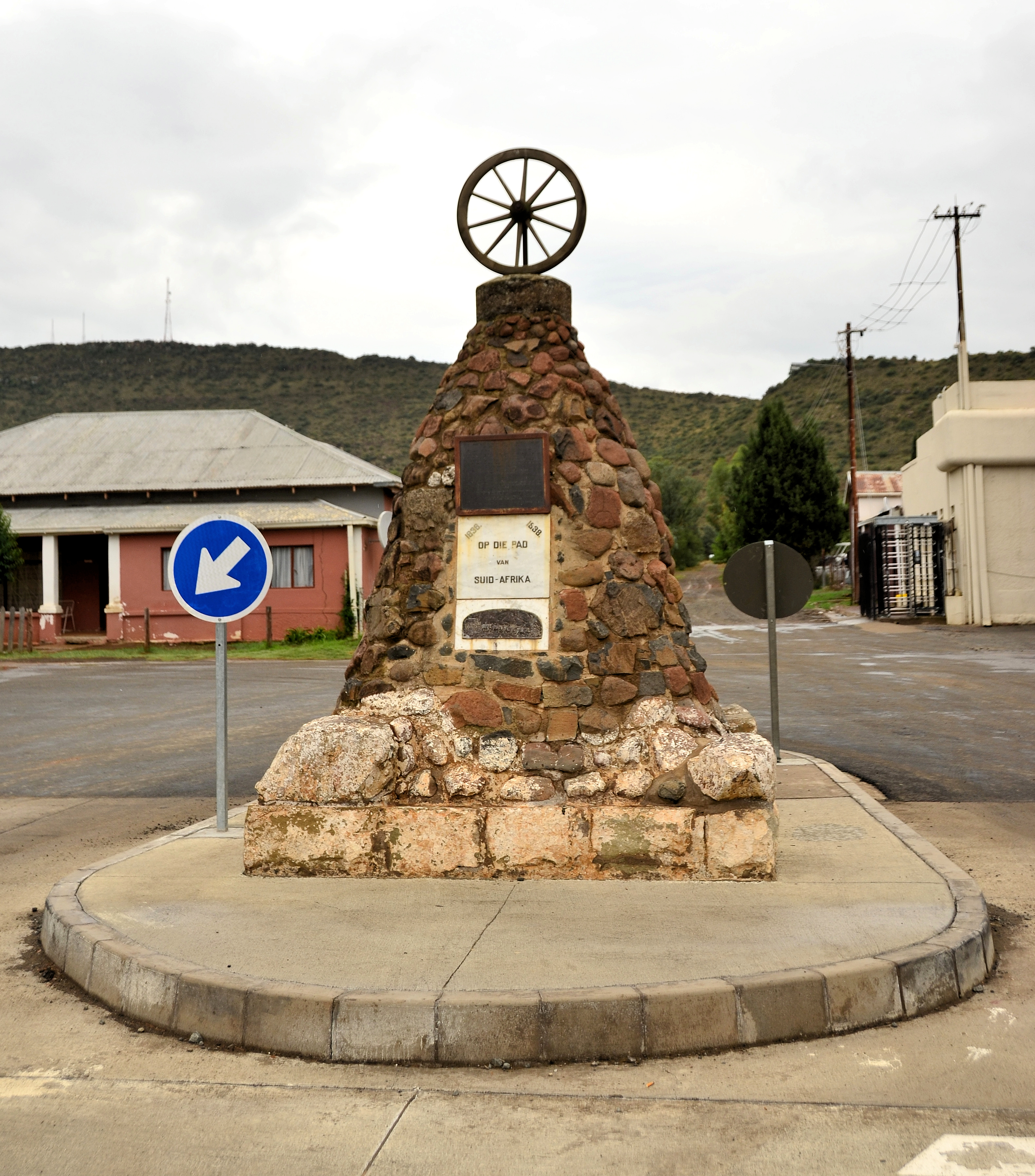 A monument in Smithfield, South Africa, commemorating the 1938 Symbolic Great Trek. Erected on 15 October 1938.